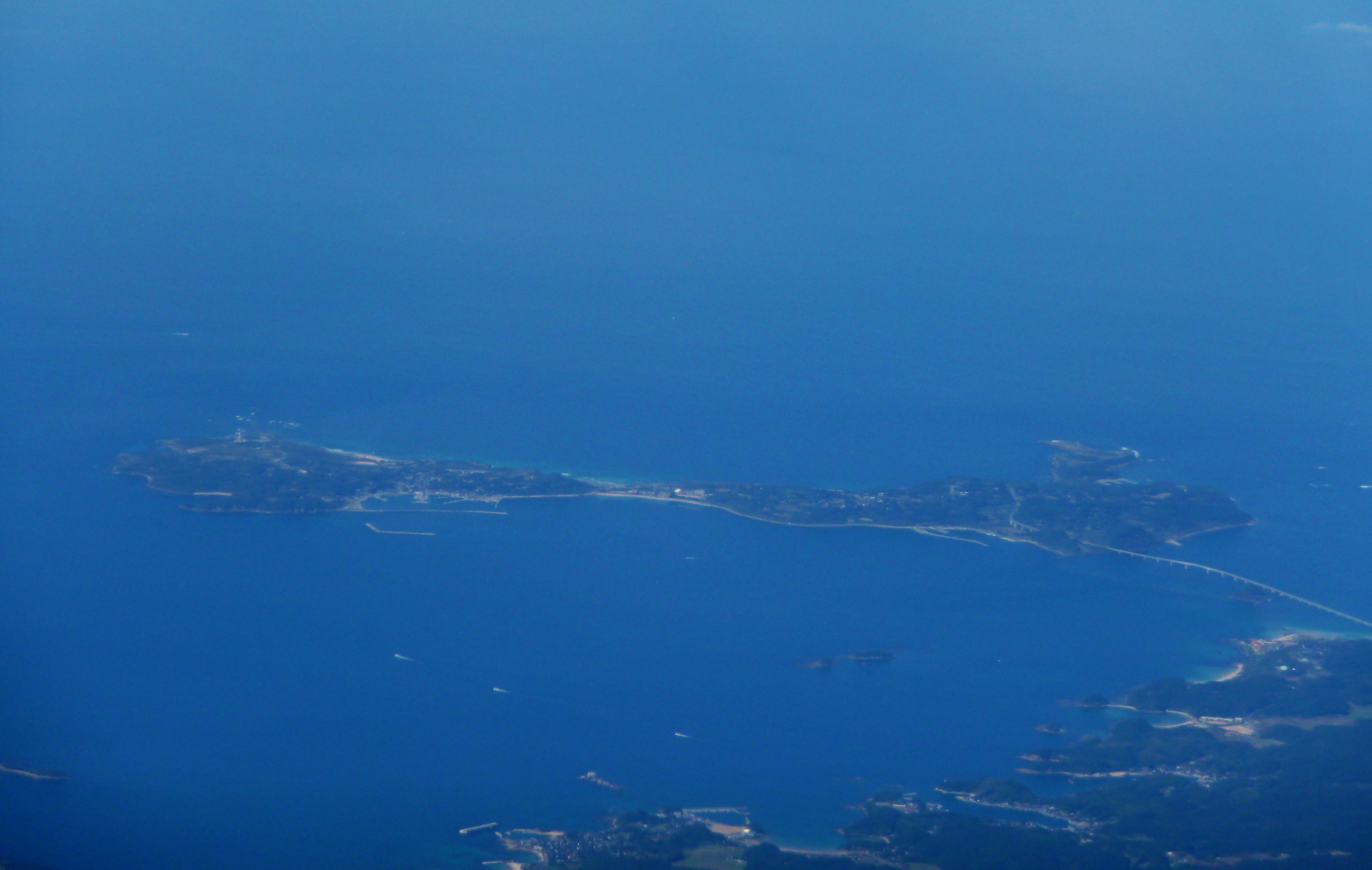 角島